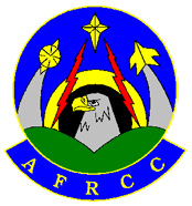 Air Force Rescue Coordination Center